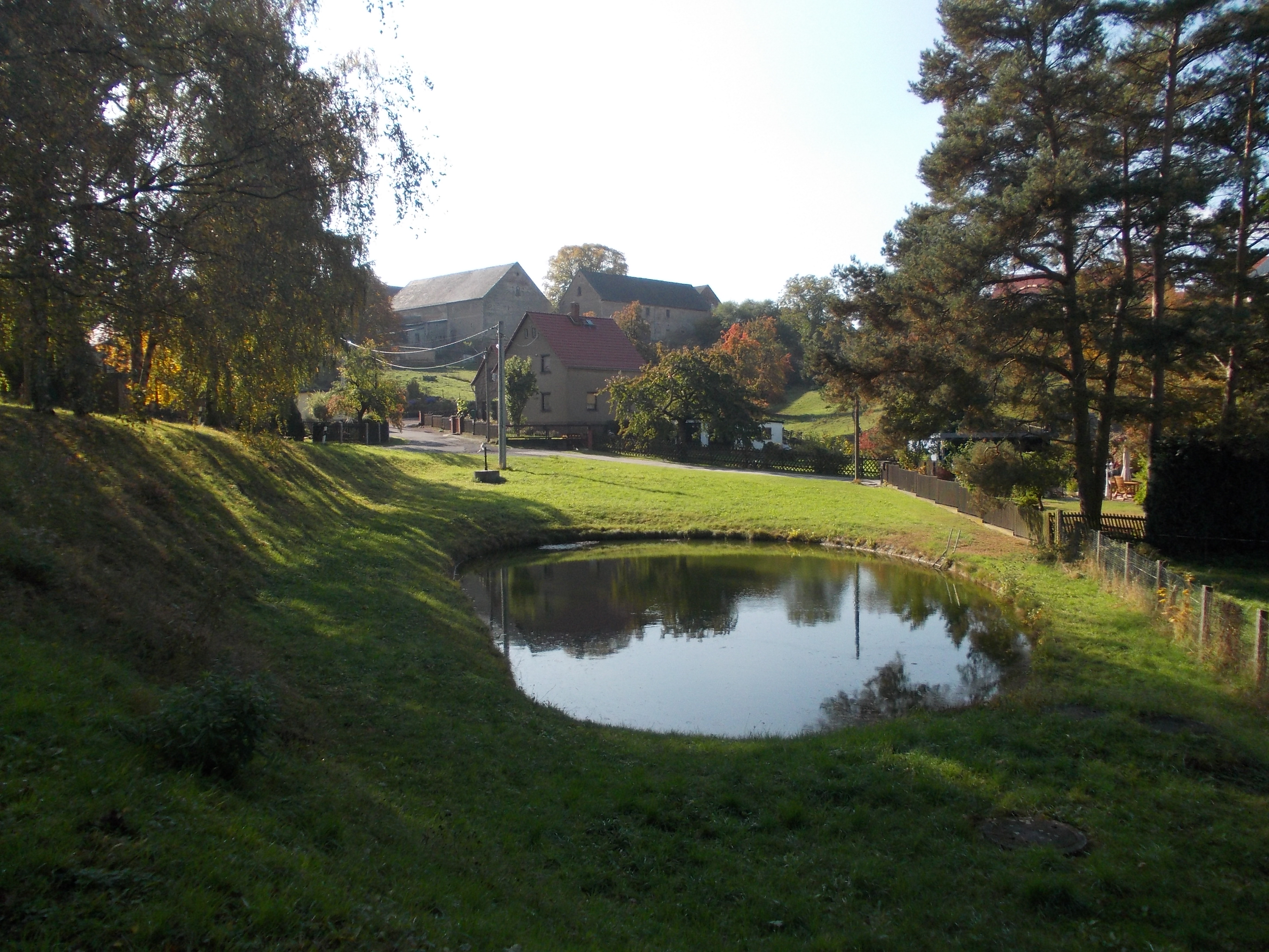 Pond in Bröhsen (Grimma, Leipzig district, Saxony)